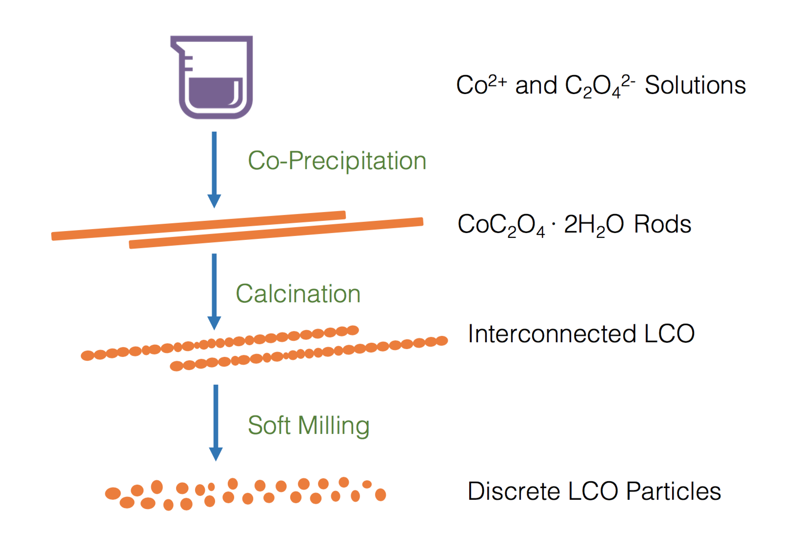 A synthesis route to produce nanosize or sub-micrometer size lithium cobalt oxide ( LCO) to achieve high rate capabilities in lithium-ion batteries.